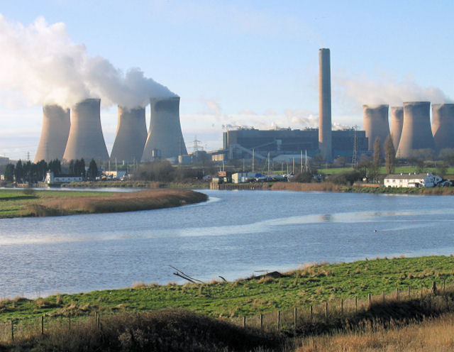 Fiddlers Ferry power station